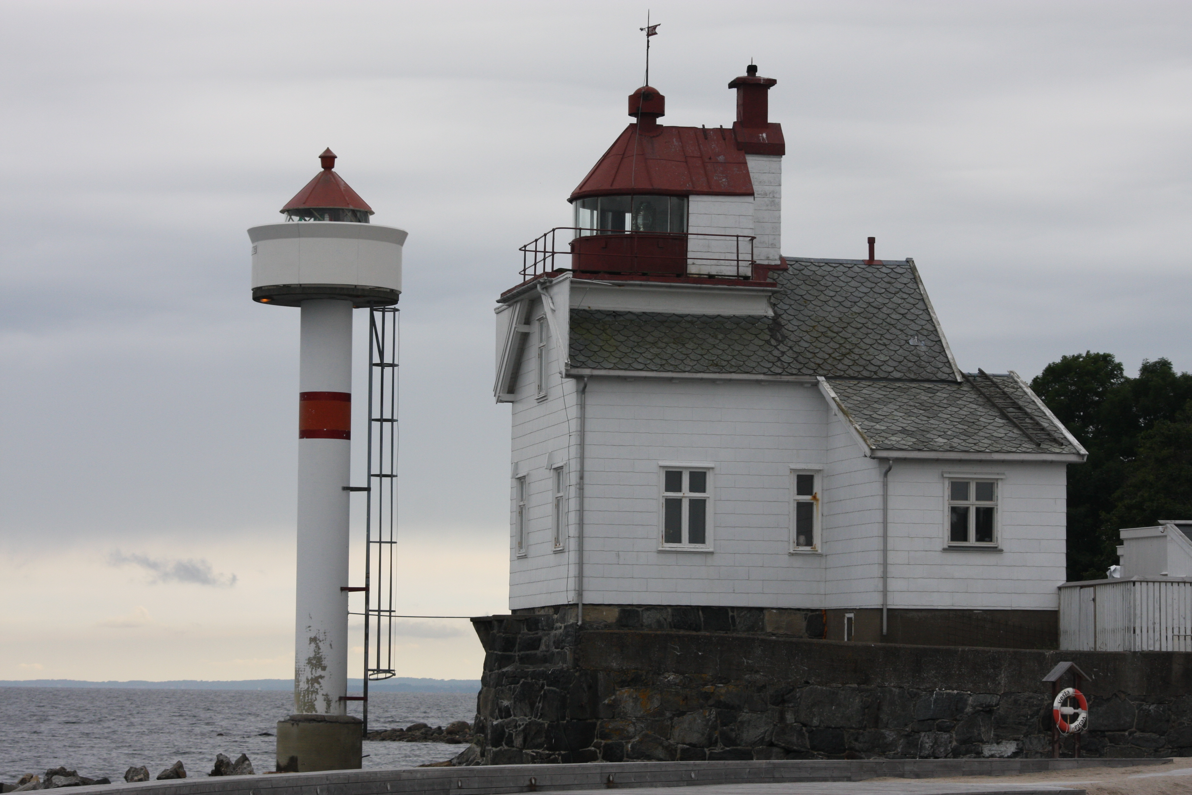 Filtvet Fyr, a lighthouse in Hurum, Buskerud (Norway).